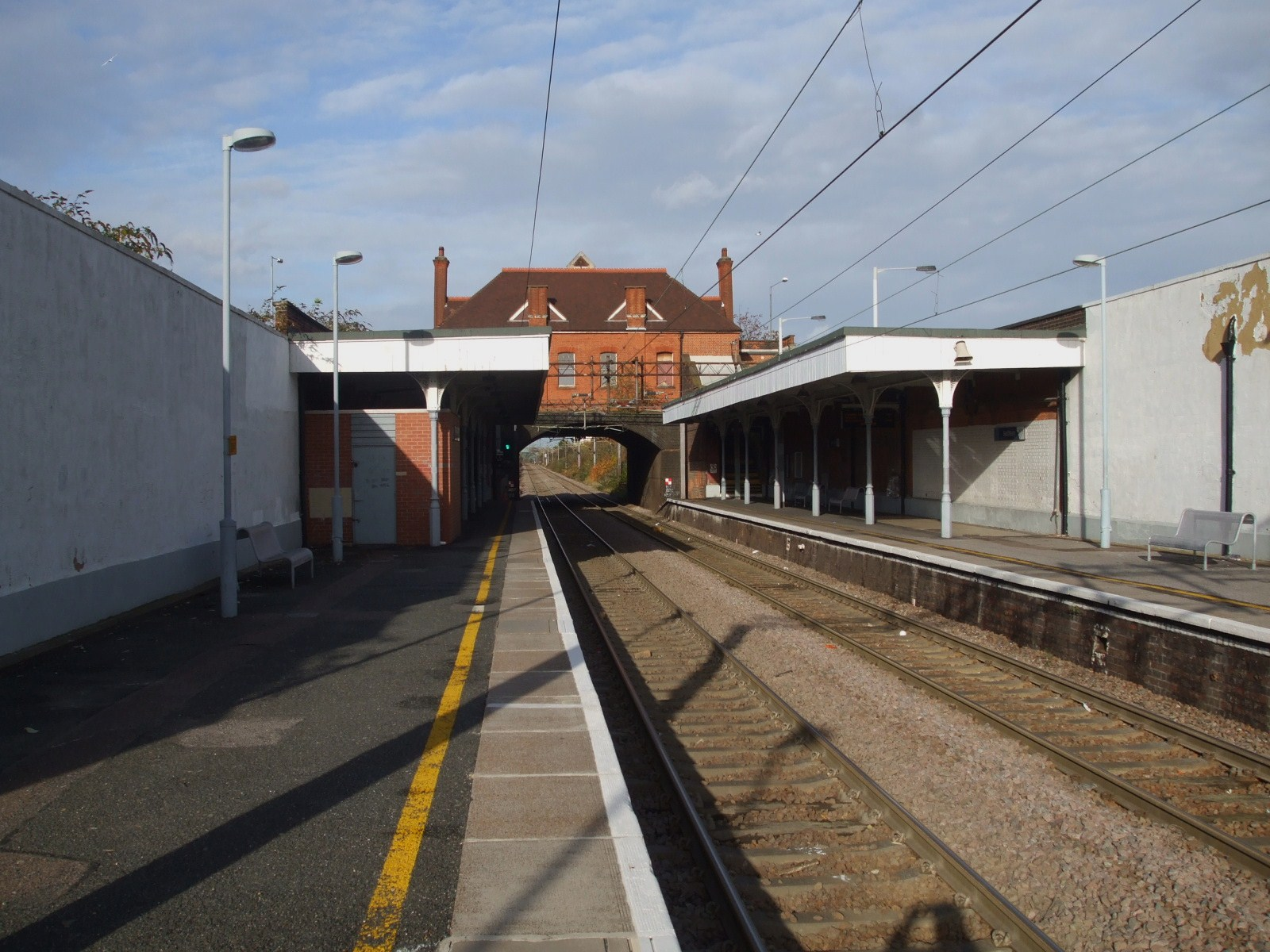 Southbury station looking north towards station building